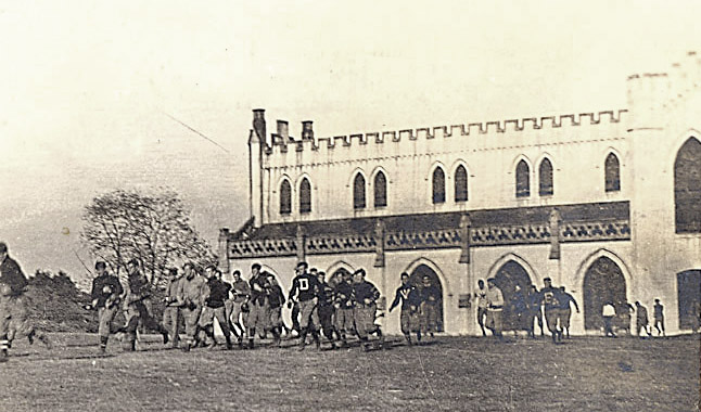 Players coming onto the VMI Parade Ground in 1905, most likely the game against Virginia Tech